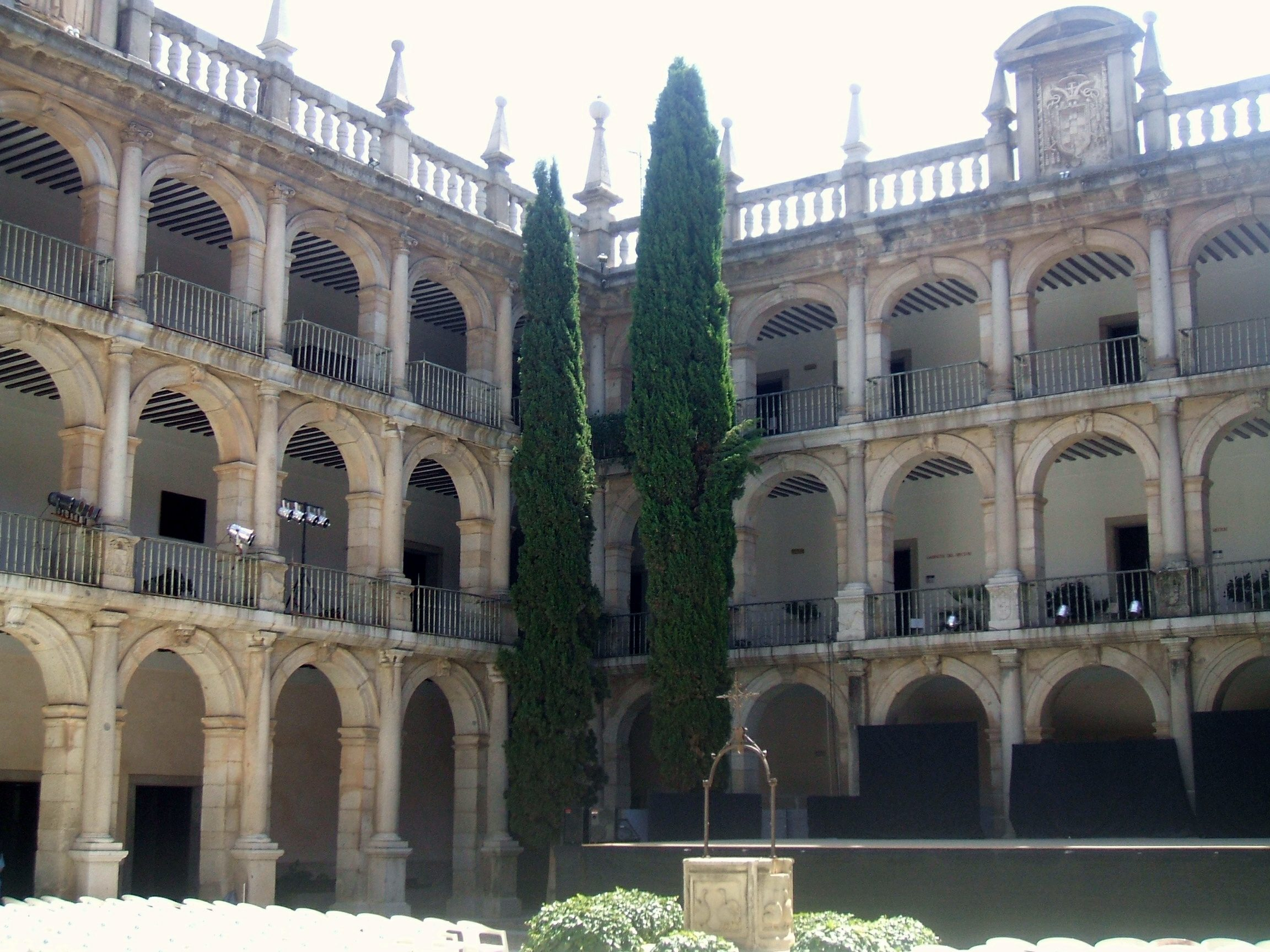 Patio de Santo Tomás de Villanueva, Colegio Mayor de San Ildefonso, Universidad de Alcalá de Henares (Madrid, España)